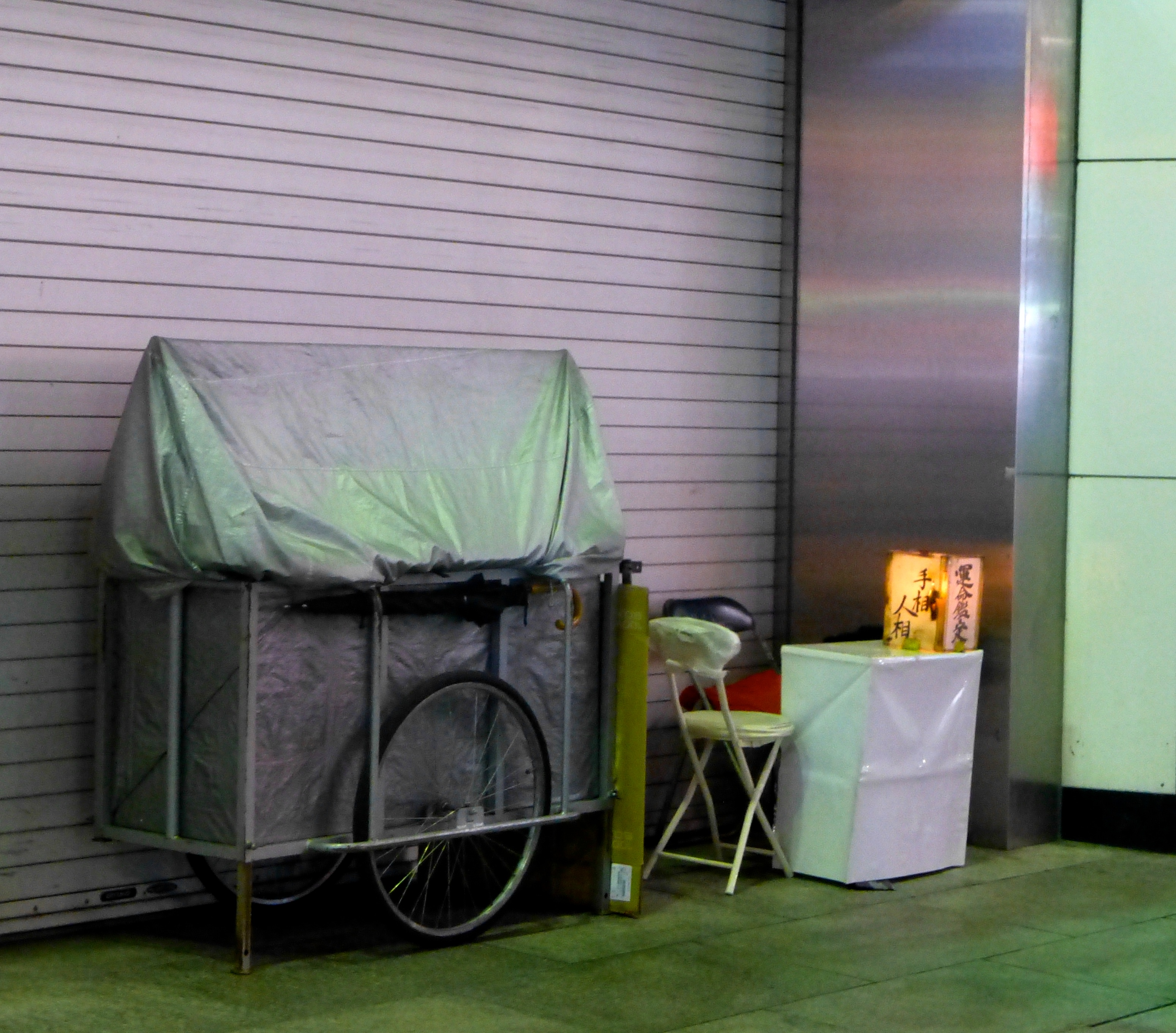 Japanese palm reading, doing it in an outside place